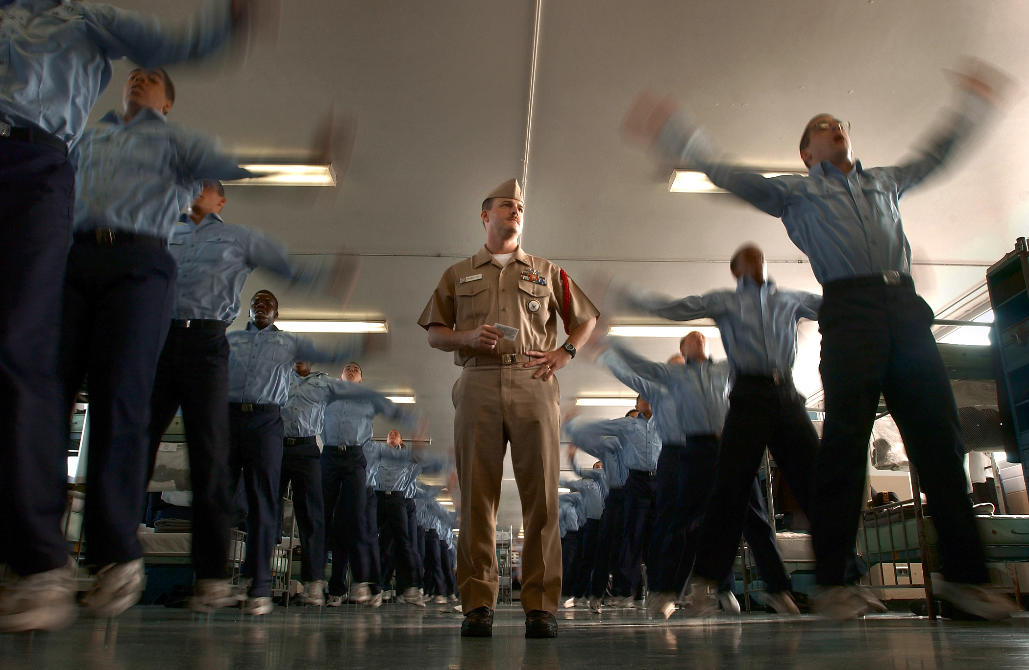 020301-N-3995K-011 U.S. Navy Recruit Training Command, Great Lakes, IL (Mar. 1, 2002) -- Chief Gunner’s Mate Shaune Thorton uses “Instructional Training” (IT) exercises as one of the tools available to him as a Recruit Division Commander. The sole purpose of IT for a Navy recruit is to correct substandard performance within a division. U.S. Navy photo by Journalist 1st Class Preston Keres. (RELEASED)